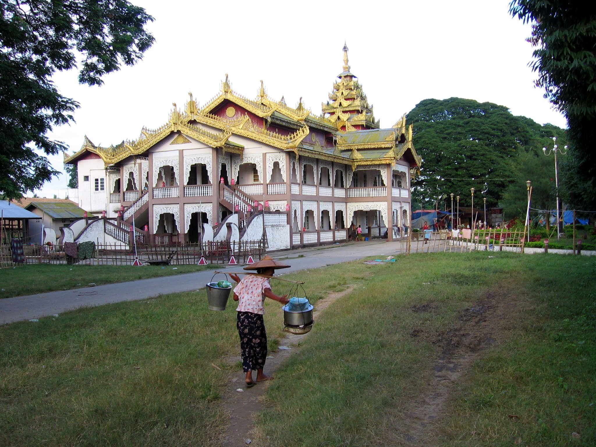 Streets of Bhamo (Myanmar).